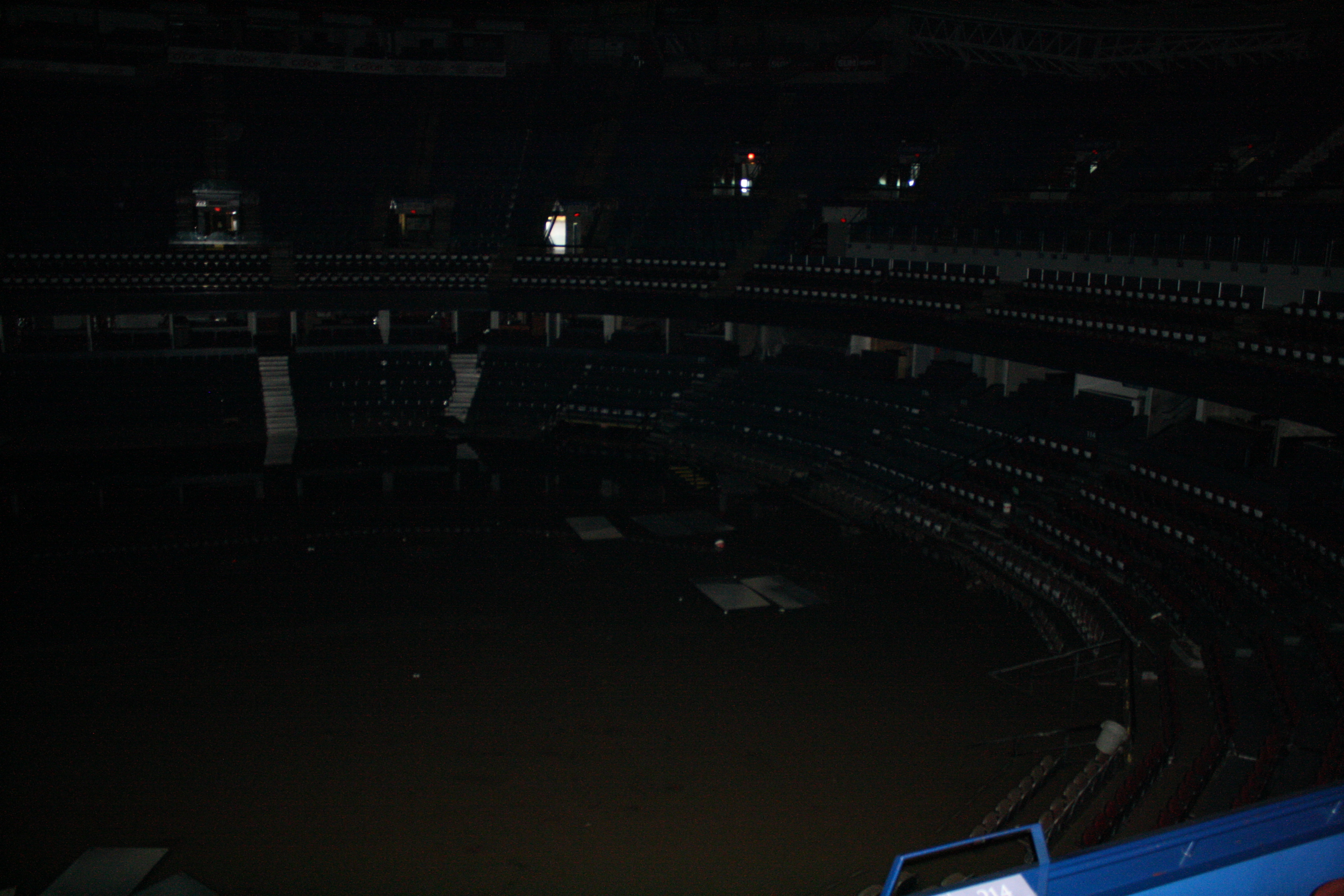 Flood water inside the lower bowl of the Scotiabank Saddledome arena in Calgary in the immediate aftermath of the 2013 Alberta floods.